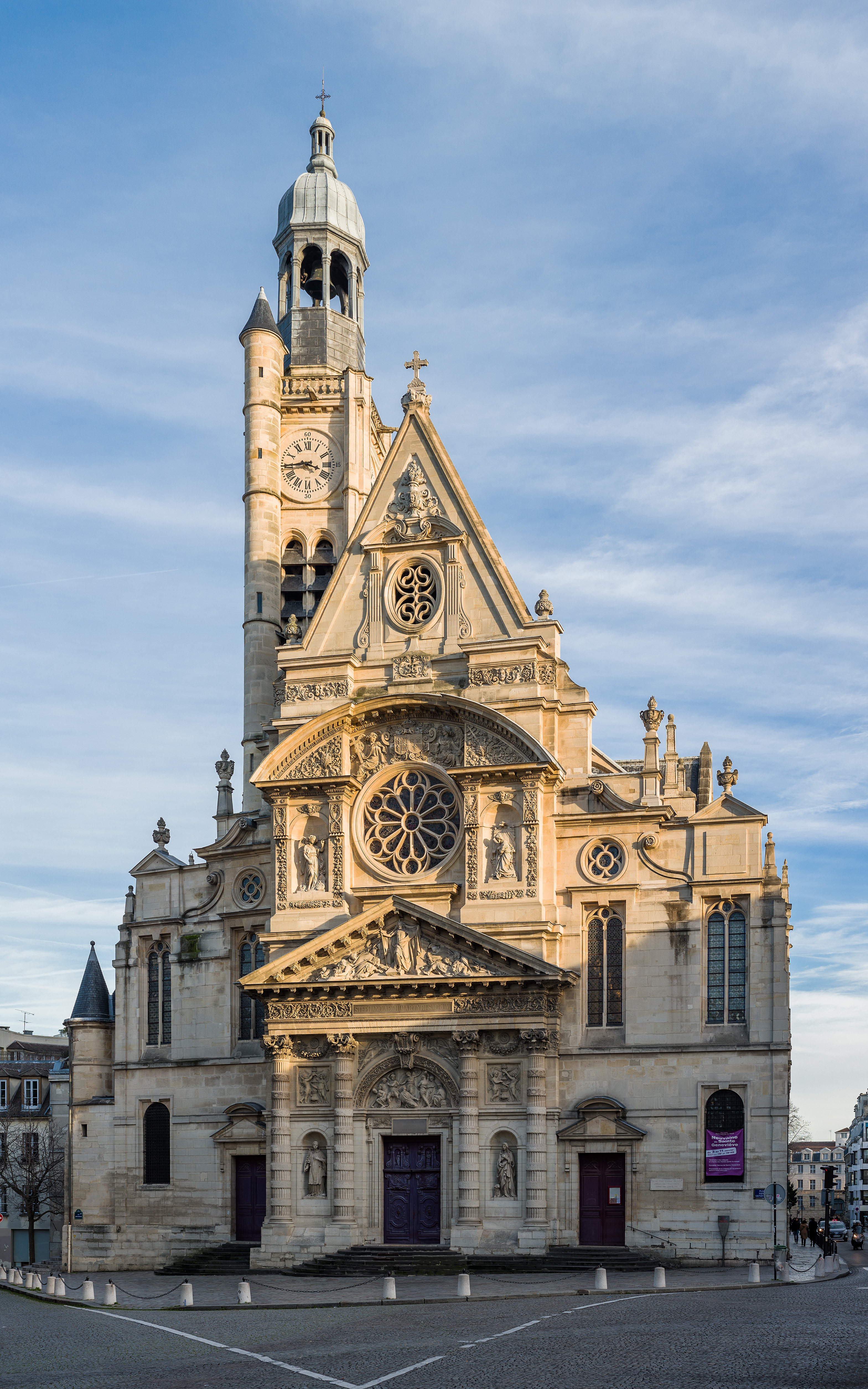 The west front of St-Etienne-du-Mont viewed from Place du Pantheon in Paris, France.